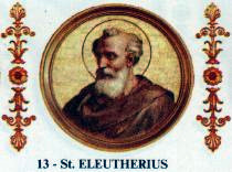 Portait of Pope Eleutherius in the Basilica of Saint Paul Outside the Walls, Rome